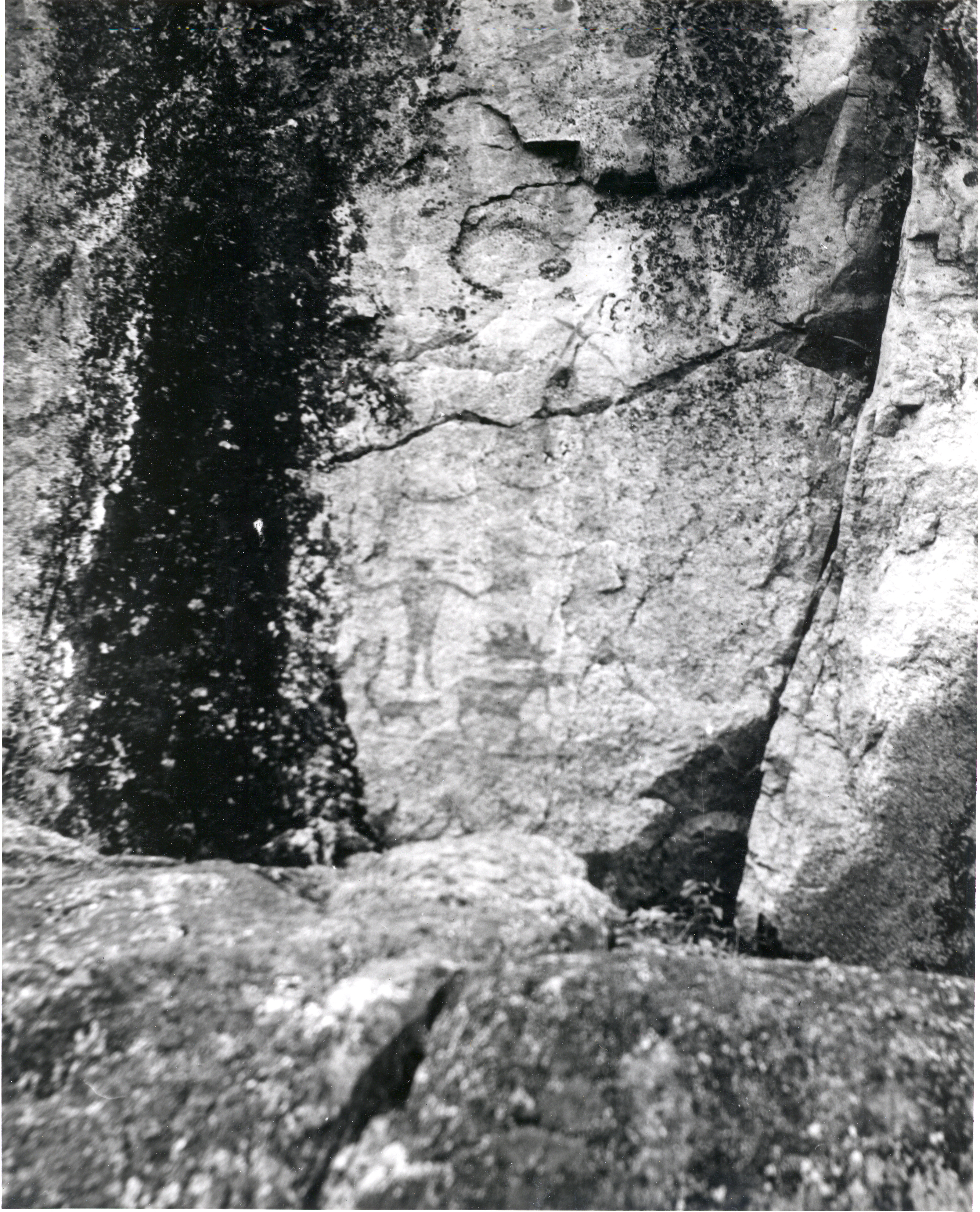 Pictographs on Hegman Lake